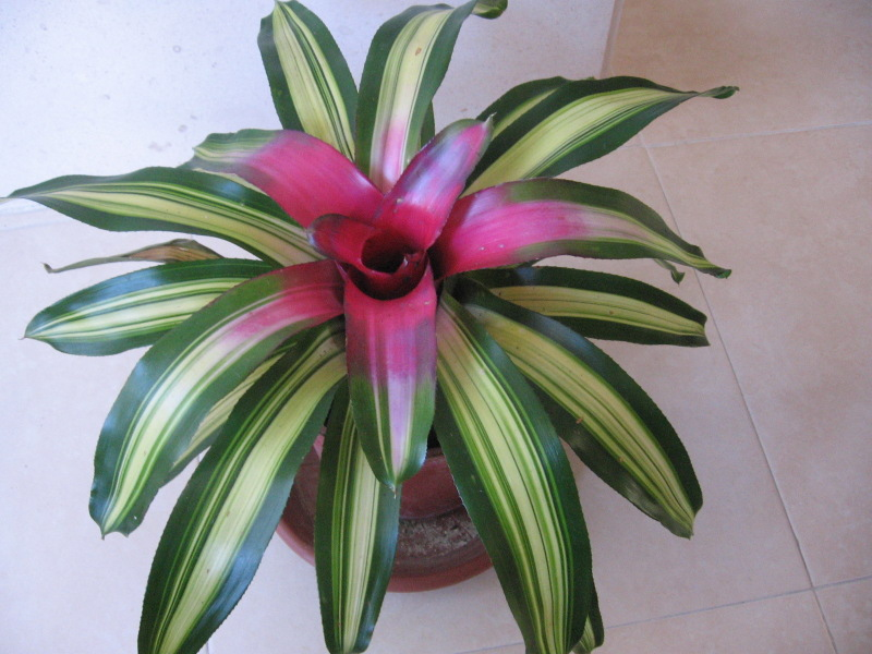 Cultivar of Neoregelia carolinae